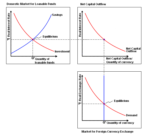 A three-panel diagram illustrating the principle of Net Capital Outflow. The image itself is derived from Image:Supply-demand-equilibrium.svg which is itself under GNU GDFL and CC . The concept is ultimately derived from N. Gregory Mankiw's Principles of Economics, but as he was illustrating a fundamental principle of economics, which like 1+1=2 one cannot copyright, there is no infringement there.